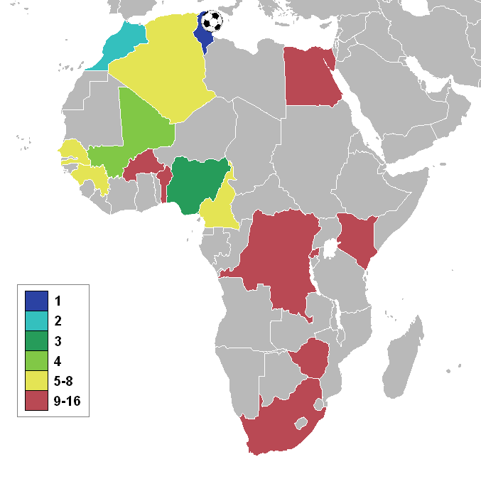 Countries positions in the African Cup of Nations 1st 2nd 3rd 4th 5th-8th 9th-16th Football denotes host nation